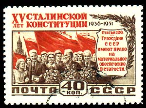 A USSR stamp of 1952; 15th anniversary of the USSR Constitution; Article 120. CPA No. 1682.